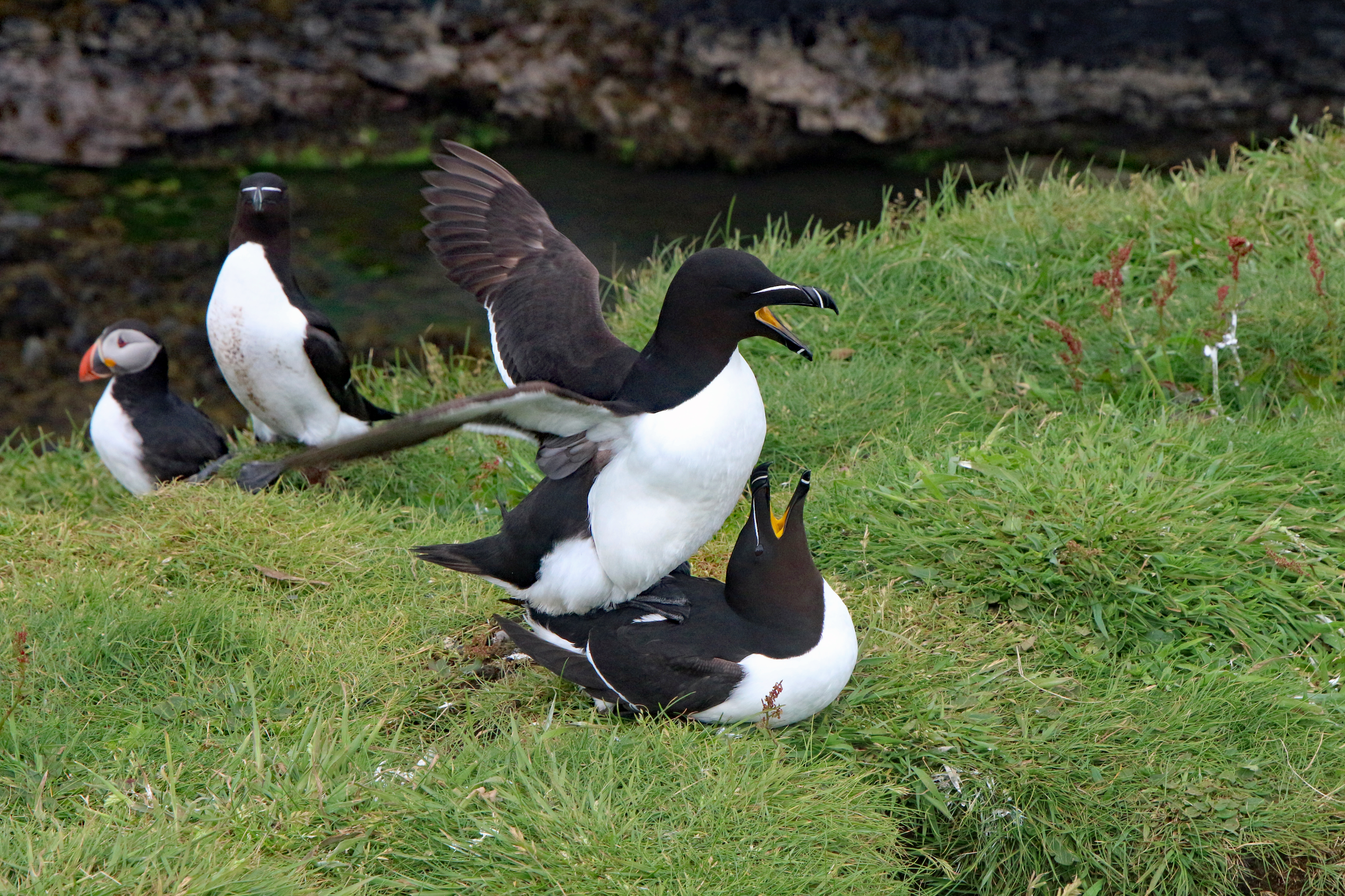 Razorbill colony at Lunga (Treshnish Isles, Scotland, UK)